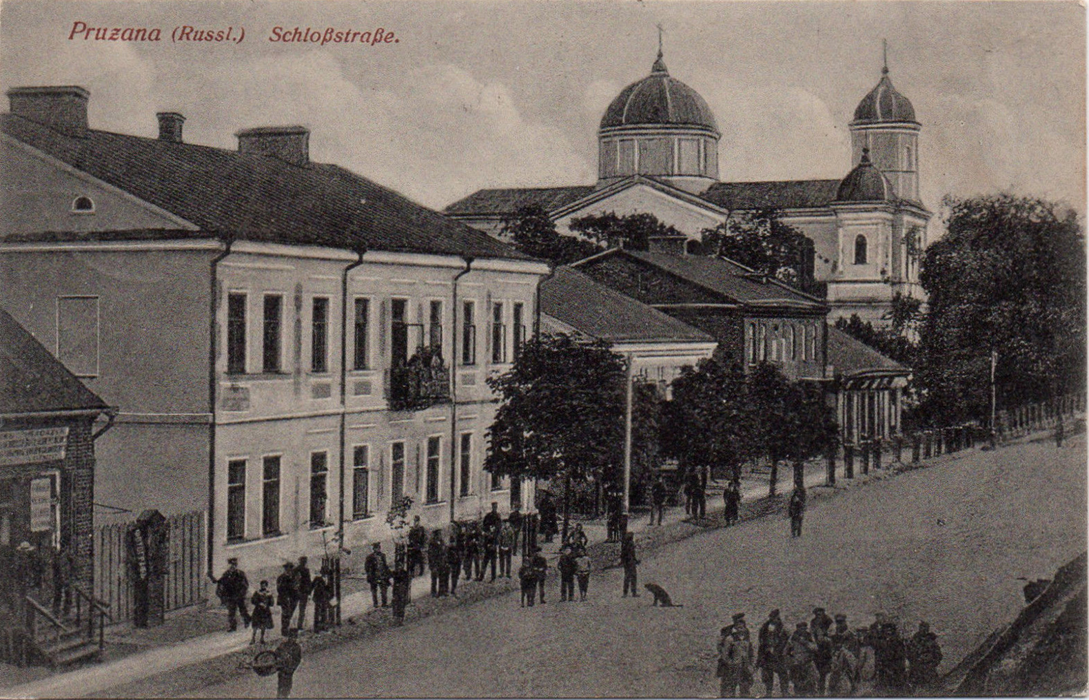 A postcard of the Pračyśćienskaja Church along Castle Street in Pruzhany, Brest Voblast, Belarus. It is an Orthodox Christian church. The caption of the postcard, in German, reads: "Pruzana (Rußl.) – Schloßstraße" ("Pruzhany (Russia) – Castle Street").